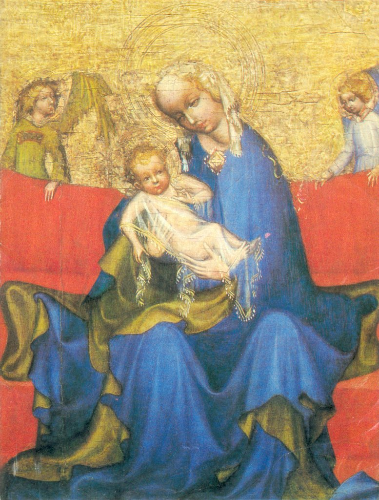 Madonna Enthroned of Jindřichův Hradec